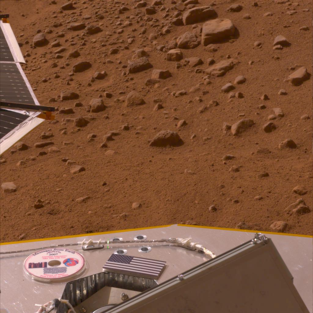 This image, released on Memorial Day, May 26, 2008, shows the American flag and a mini-DVD on the Phoenix's deck, which is about 3 ft. above the Martian surface. The mini-DVD from the Planetary Society contains a message to future Martian explorers, science fiction stories and art inspired by the Red Planet, and the names of more than a quarter million earthlings. The Phoenix Mission is led by the University of Arizona, Tucson, on behalf of NASA. Project management of the mission is by NASA's Jet Propulsion Laboratory, Pasadena, Calif. Spacecraft development is by Lockheed Martin Space Systems, Denver.